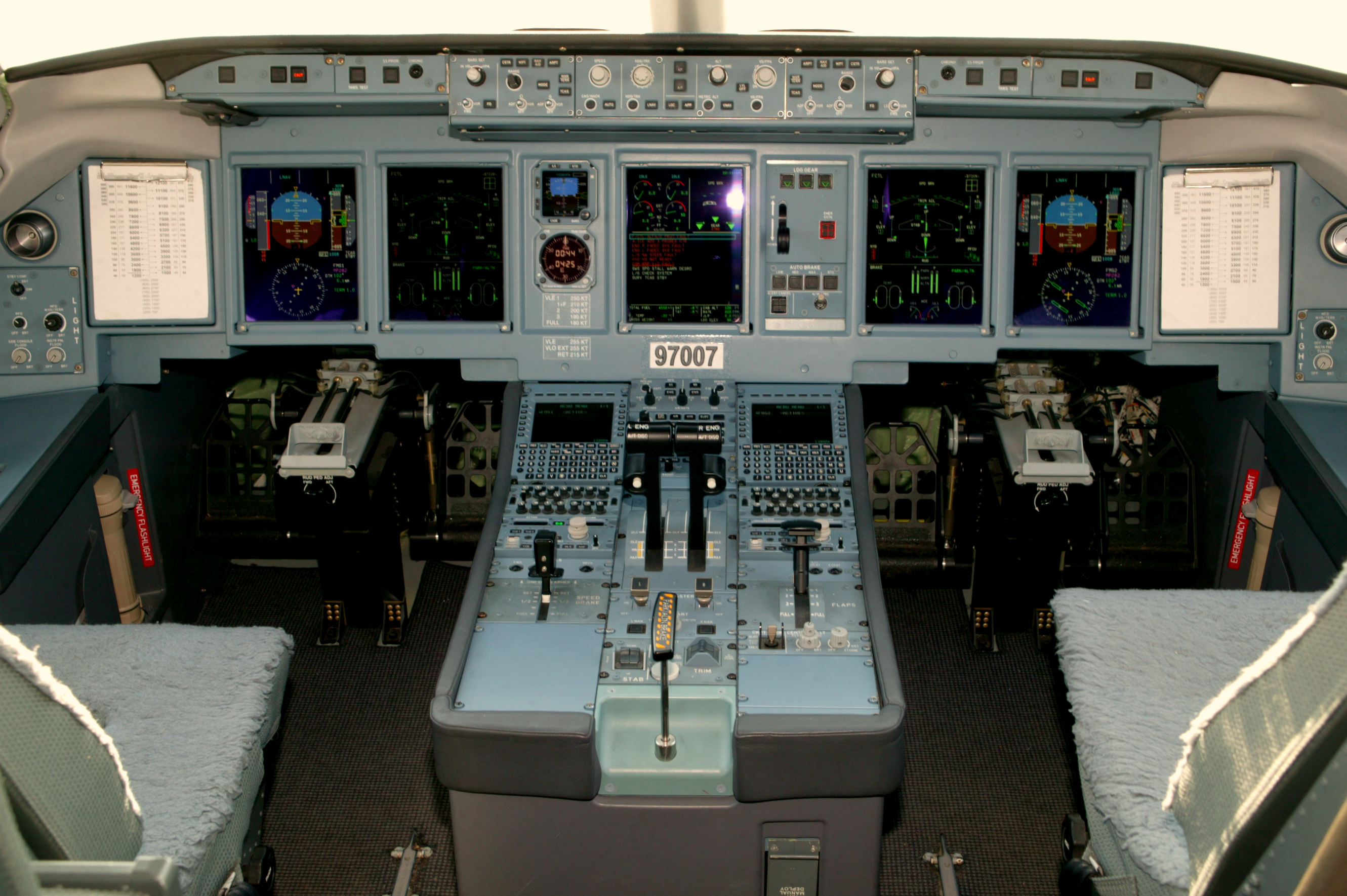 More pictures of SSJ100 in Armavia Livery on the Runway in Komsomolsk-on-Amur